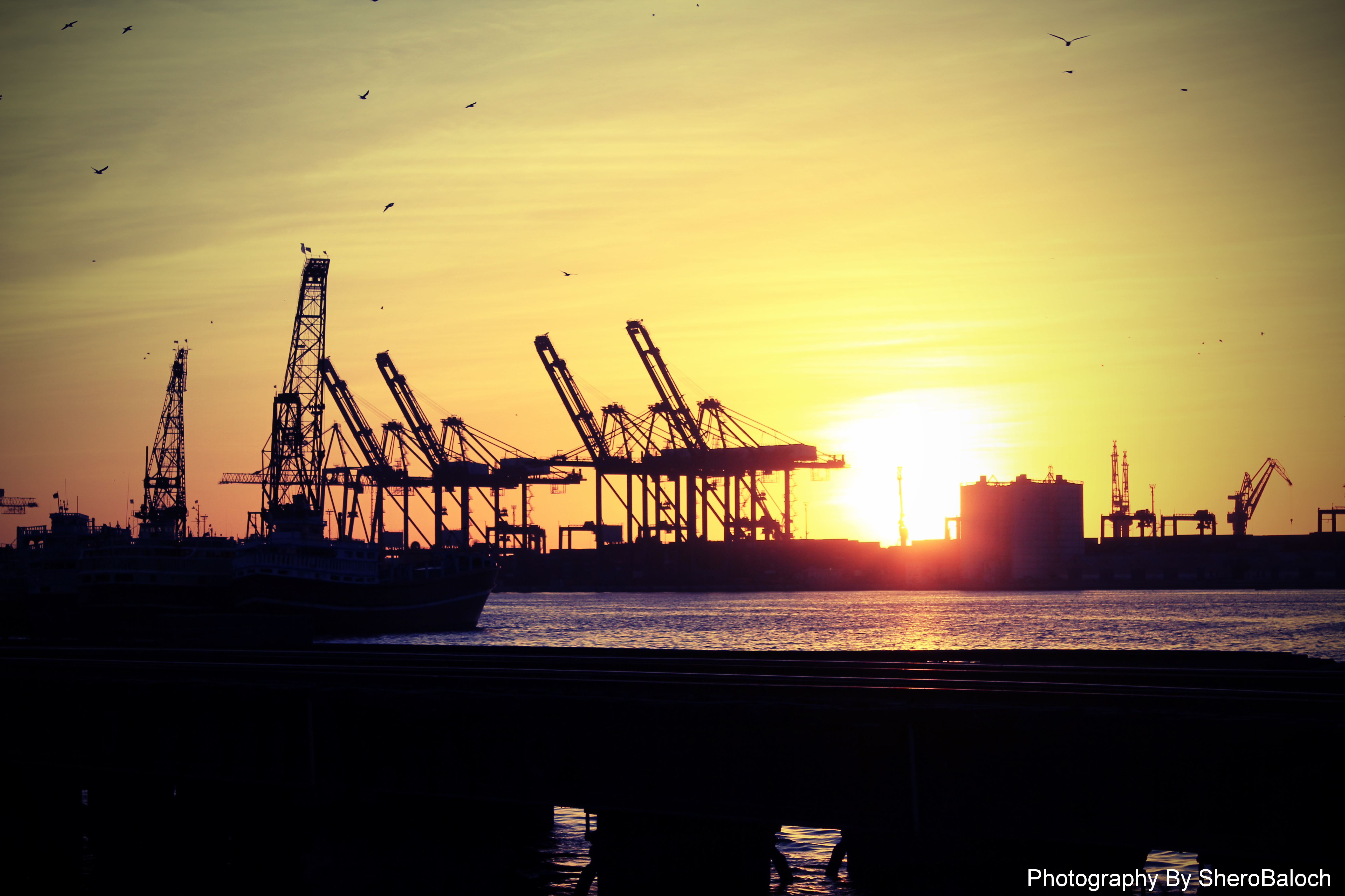 Kharachi Grand Port